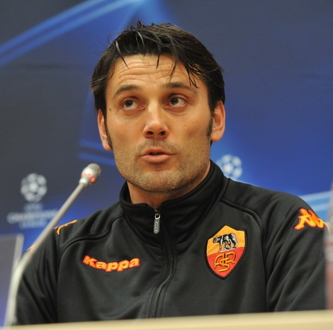 Vincenzo Montella